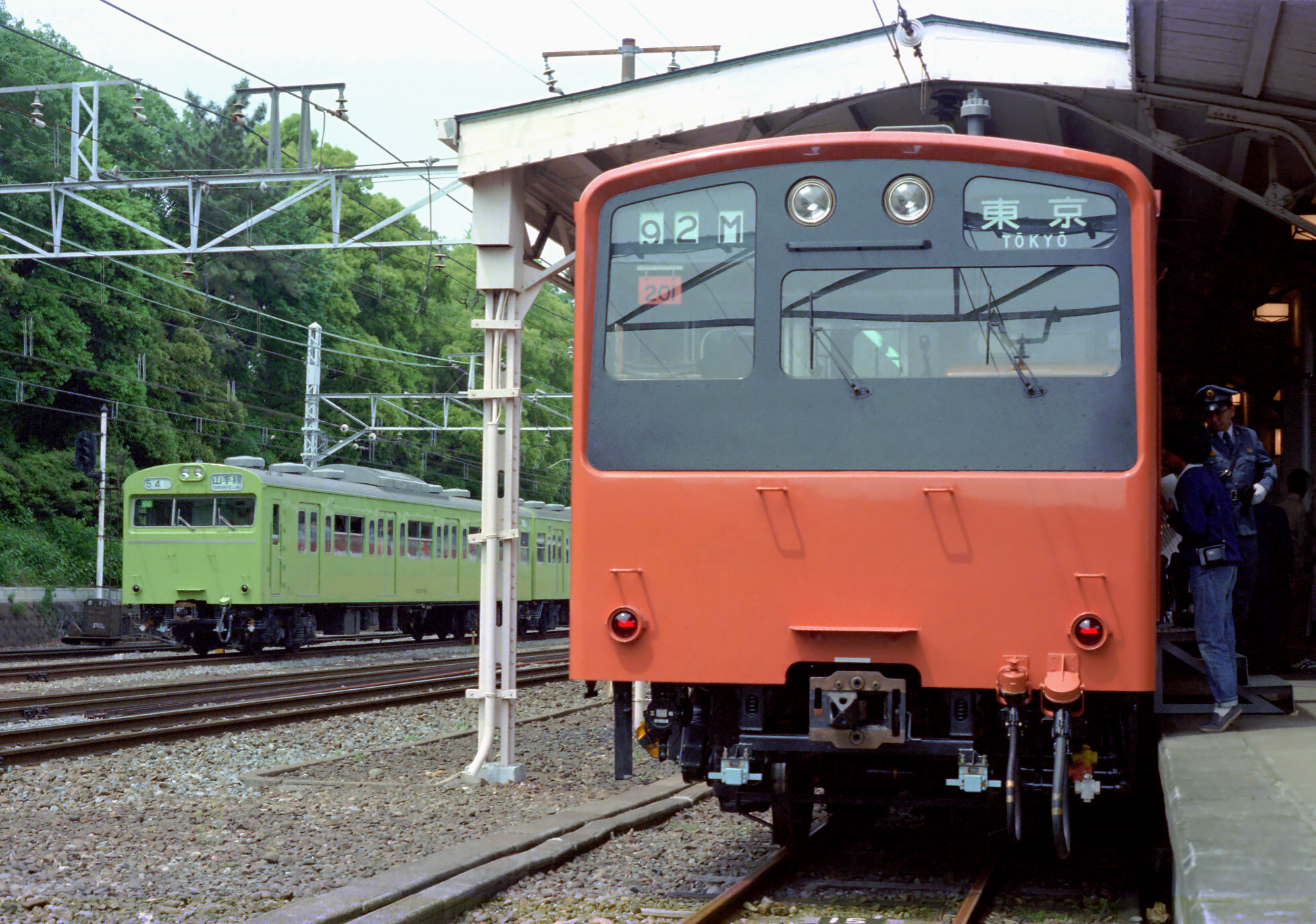 The prototype JNR 201 series EMU on public display at the imperial train platform at Harajuku Station in Tokyo